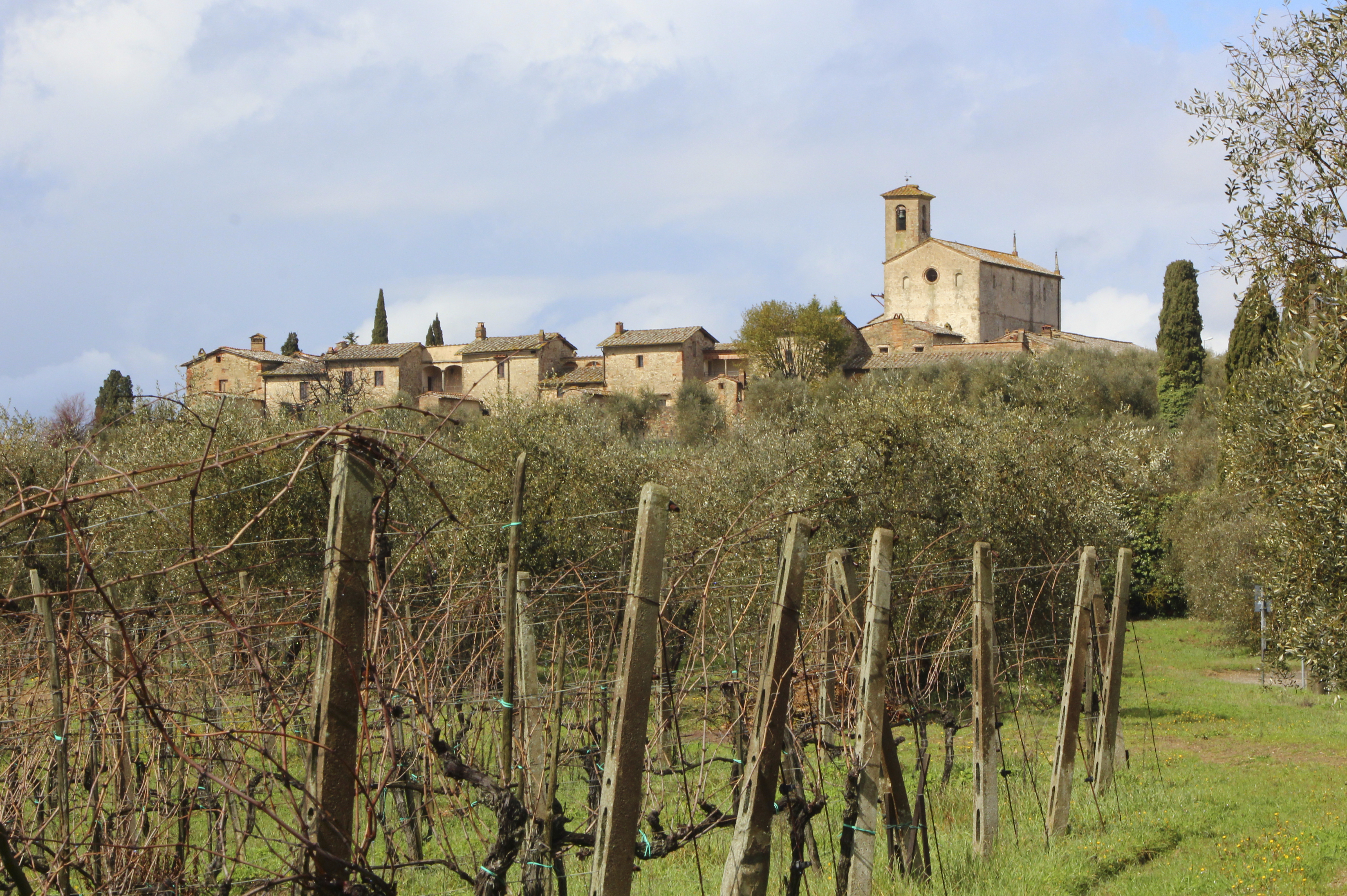 Panorama of the ex monastery, Church and Charterhouse San Pietro a Pontignano, territory of Castelnuovo Berardenga, Province of Siena, Tuscany, Italy